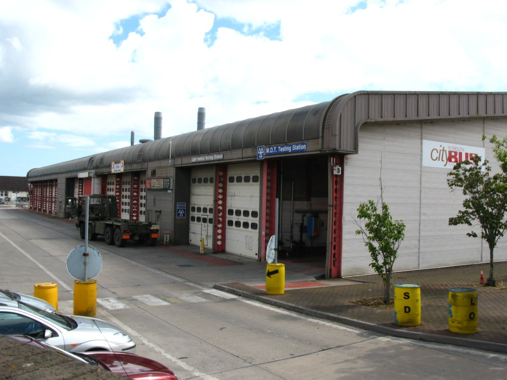 The workshops at the Milehouse Depot of Plymouth Citybus. As well as maintaining their own buses and coaches, the company operates a commercial garage for both commercial and private vehicles from this building. The depot was opened for trams in 1901, expanded in the 1920s and the new workshops were added in 1982.